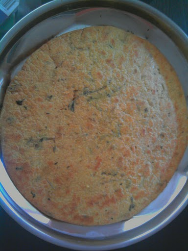 Gujarati Khakhra